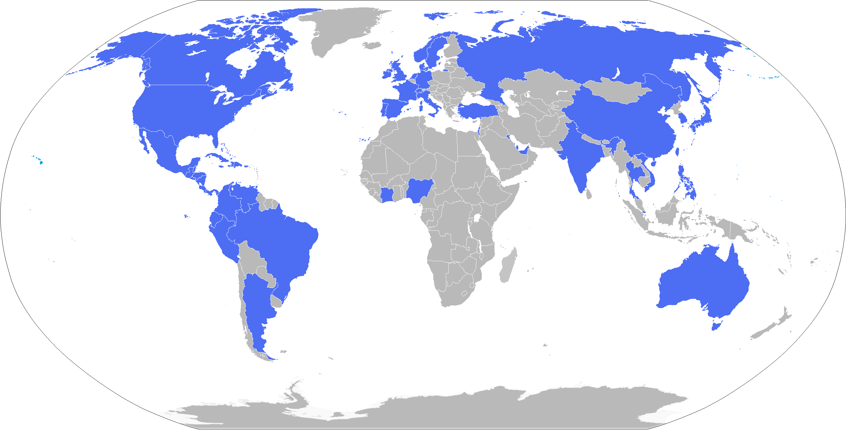 Destinations map of United airlines. Countries in blue are served by the airline.